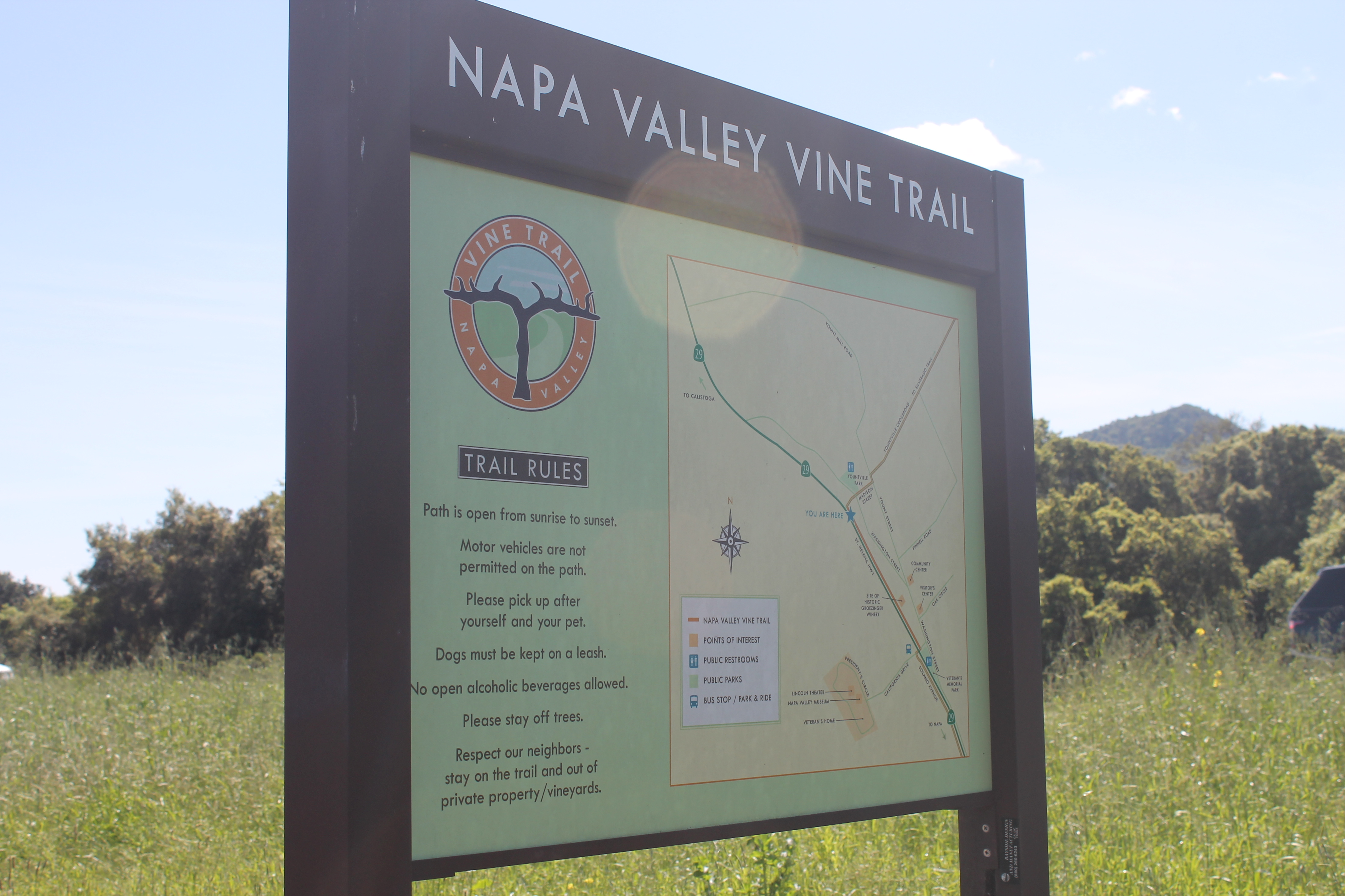 A photo of a sign describing the Vine Trail Bike Path in Napa, California